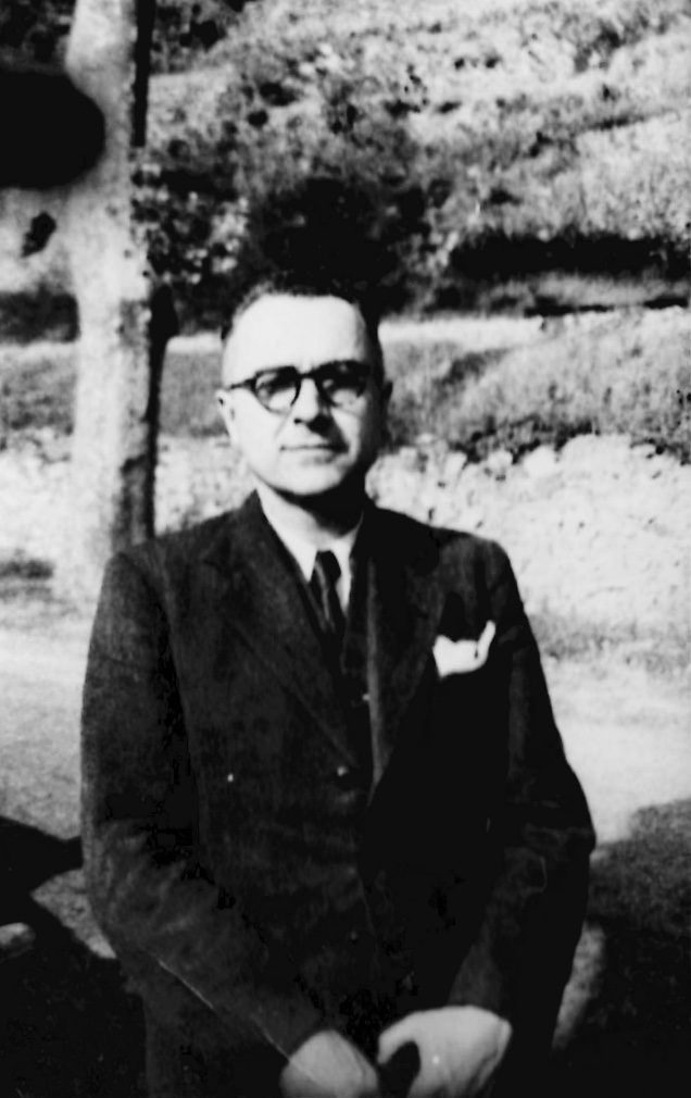 Photography of prefect Louis Dupiech